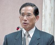 Francisco H.L. Ou (Chinese: 歐鴻鍊; born January 5, 1940) is a former diplomat, and former Minister of Foreign Affairs of the Republic of China serving under President Ma Ying-Jeou from 2008-2009.